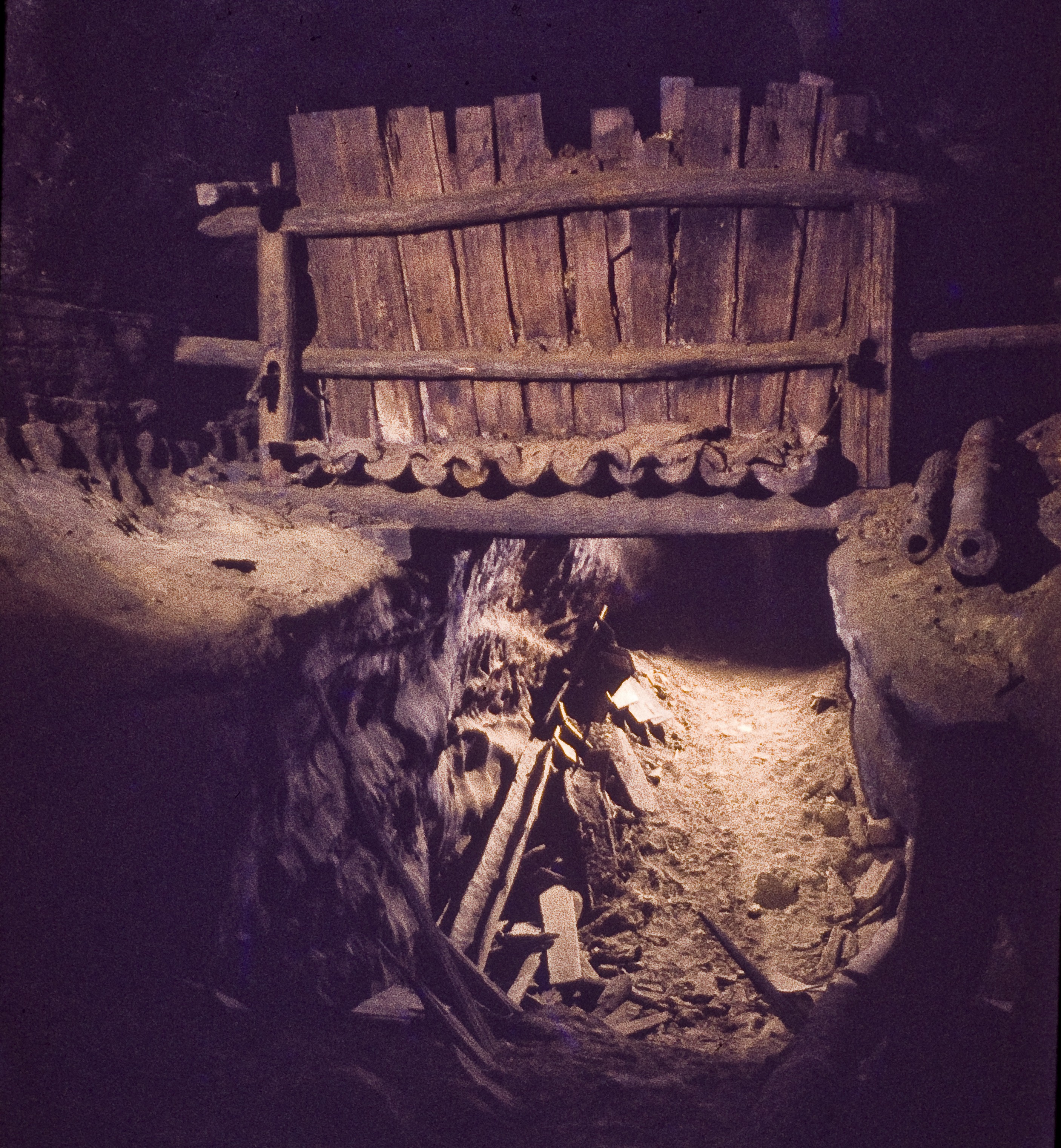 Civil-war era saltpeter vat in Big Bone Cave, TN. On the right is some of the log piping used to carry water in and out of the cave for leaching the nitrates from the cave soil.